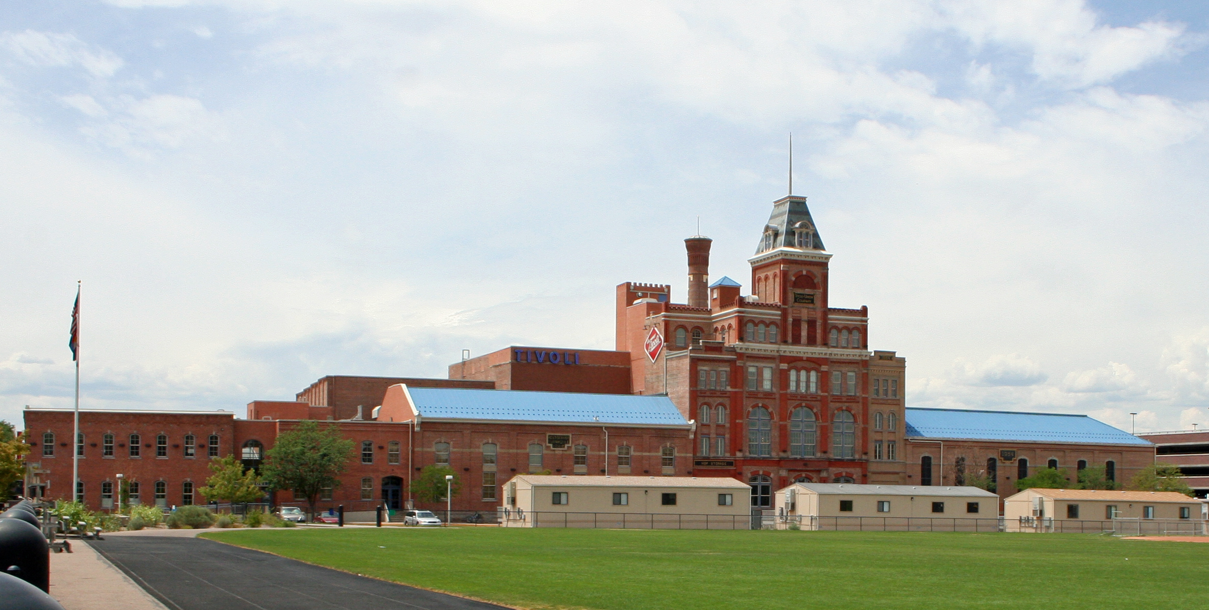 The Tivoli Student Union, a former brewery at Auraria Campus, Denver, Colorado.